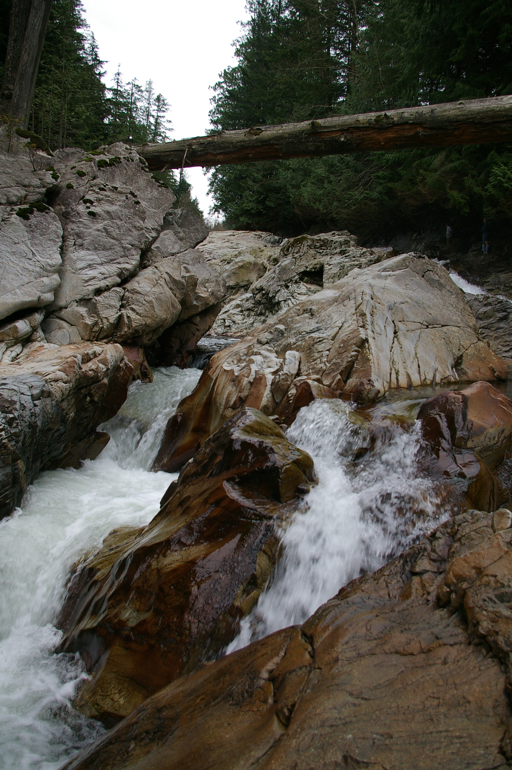 Weeks Falls locates about 7 miles east of North Bend, WA in Olallie State Park (exit 38) off of Interstate 90.